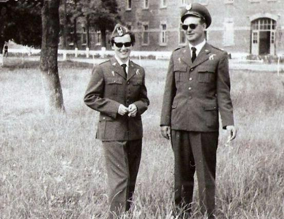 Dowódca 64.LPS mjr pil. Bolesław Andrychowski z żoną kpt. pil. Zofią Dziewiszek Andrychowską. W tle budynek nr 7, 1961